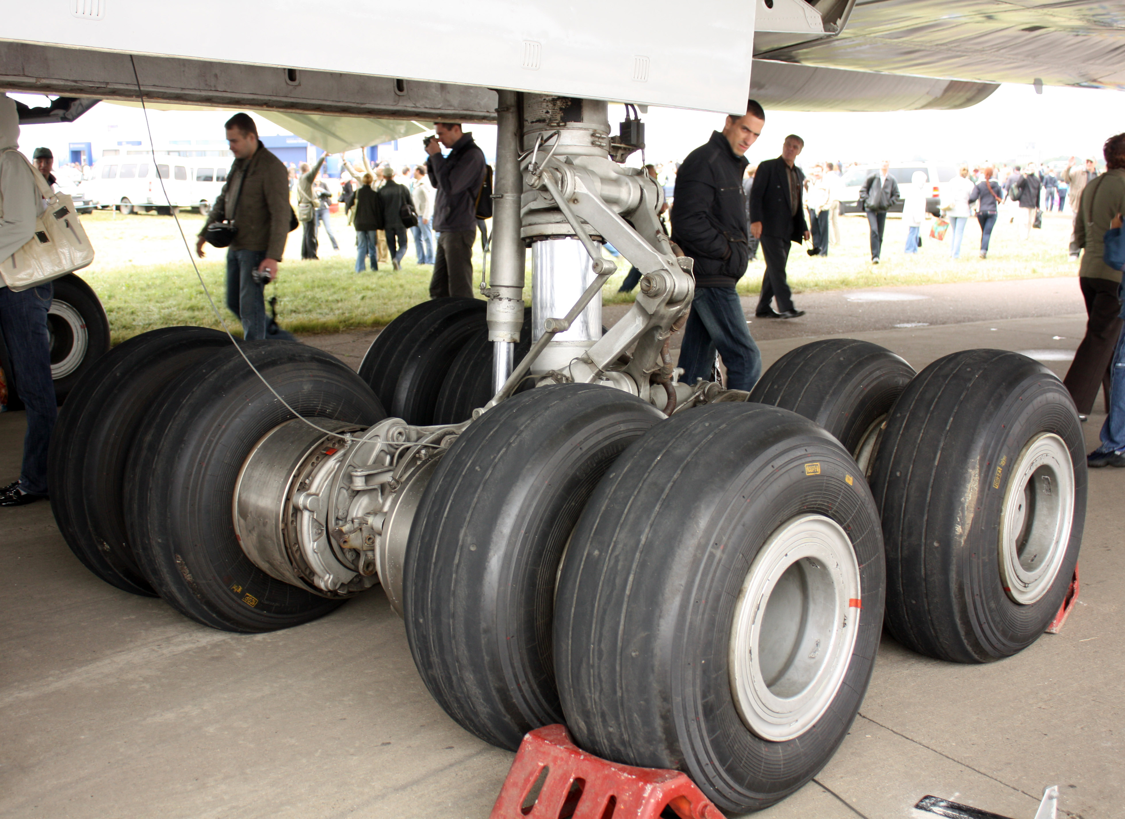 Tupolev Ту-144, a board number 77115. The left basic chassis. A view in front-outside (The international aerospace salon MAKS-2009)